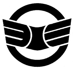 Miyoshi Saitama chapter